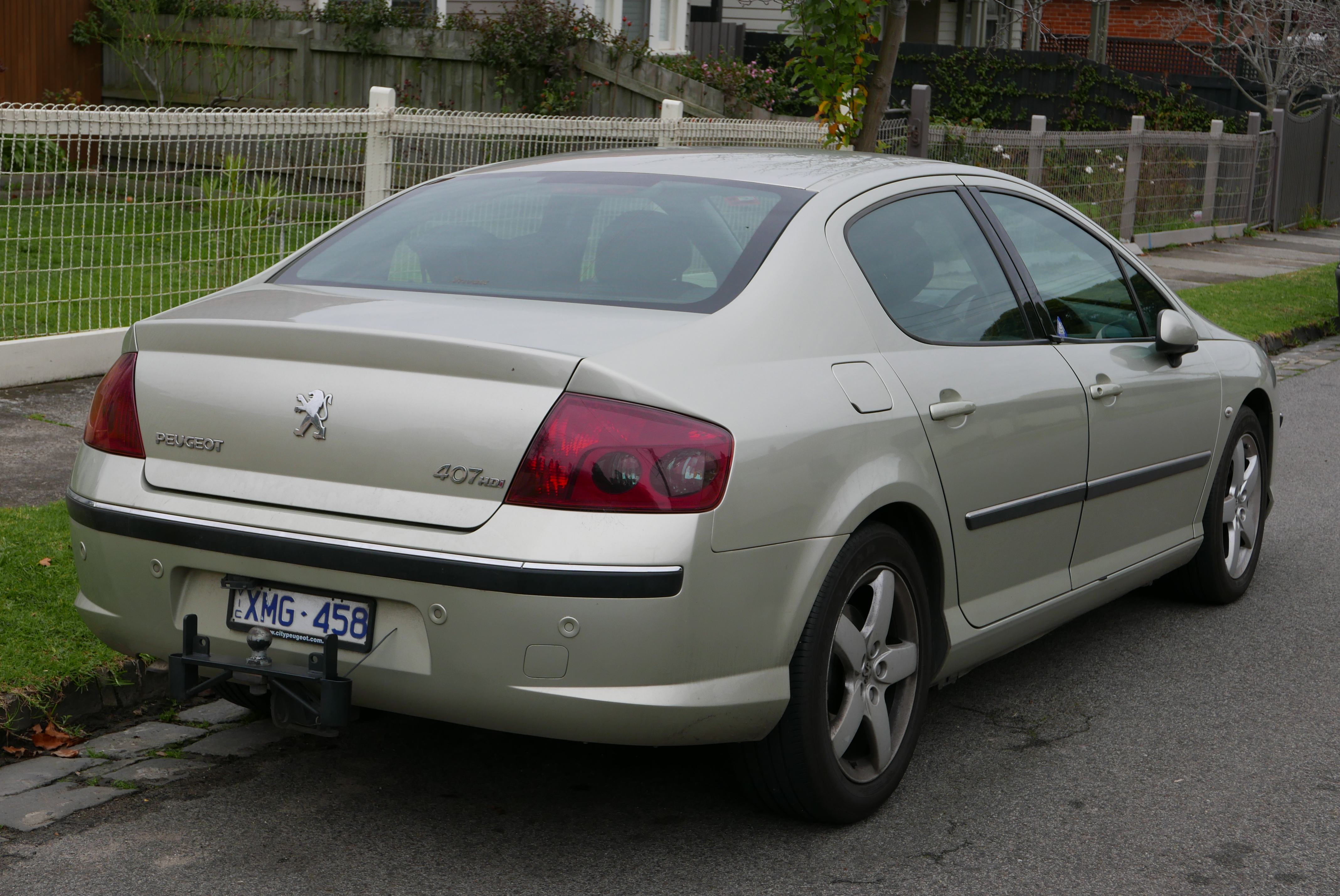 2005 Peugeot 407 ST HDi Executive sedan. Photographed in Kew, Victoria, Australia. Vehicle registration enquiry results Jurisdiction Victoria Registration XMG458 Chassis code VF36DRHRE21215429 Engine code 10BYTL4001375 Compliance date 2005-06 Year of manufacture 2005